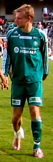 Ham Kam player Jan Michaelsen in 2007.